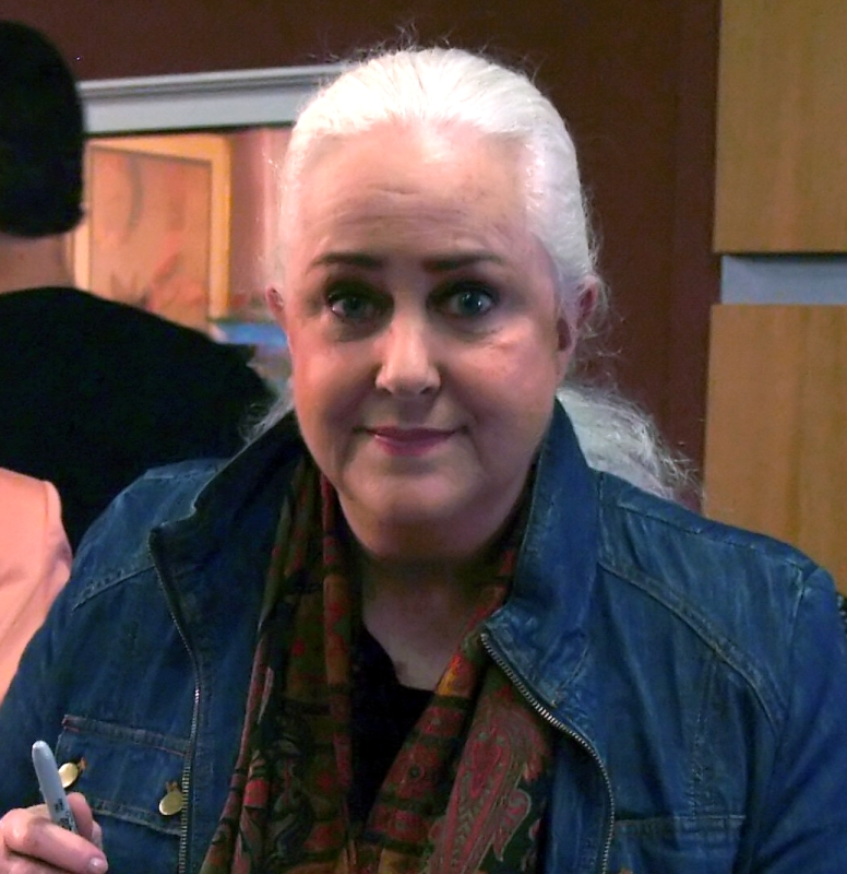 Grace Slick in 2008 Please acknowledge "Phil Konstantin" as the creator of this photograph.